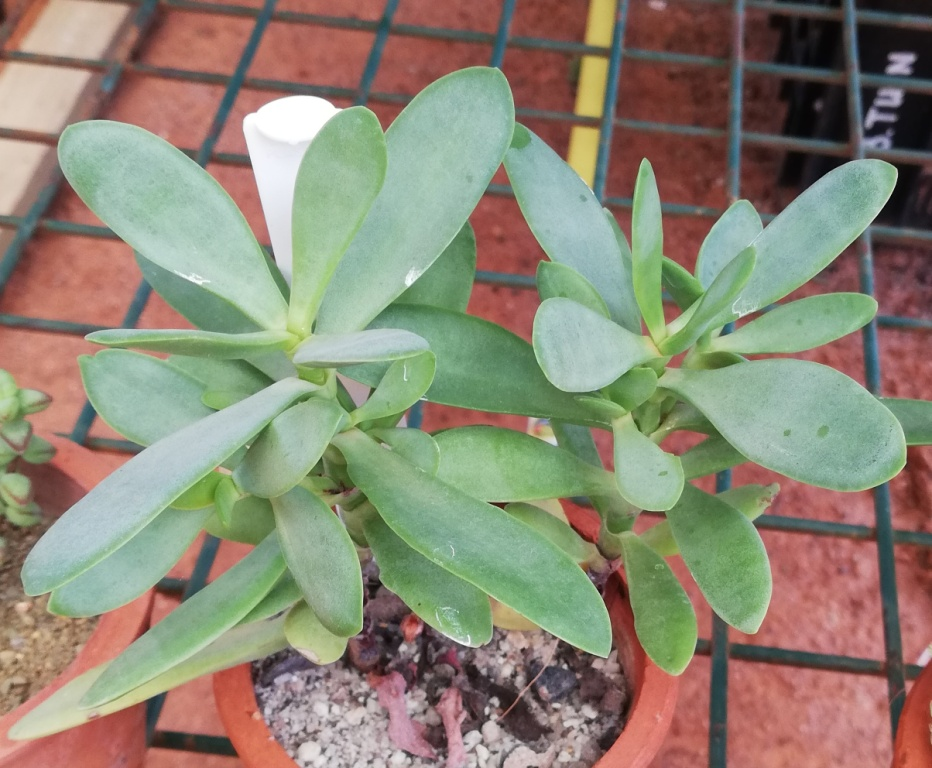 Crassula cultrata in cultivation at Babylonstoren